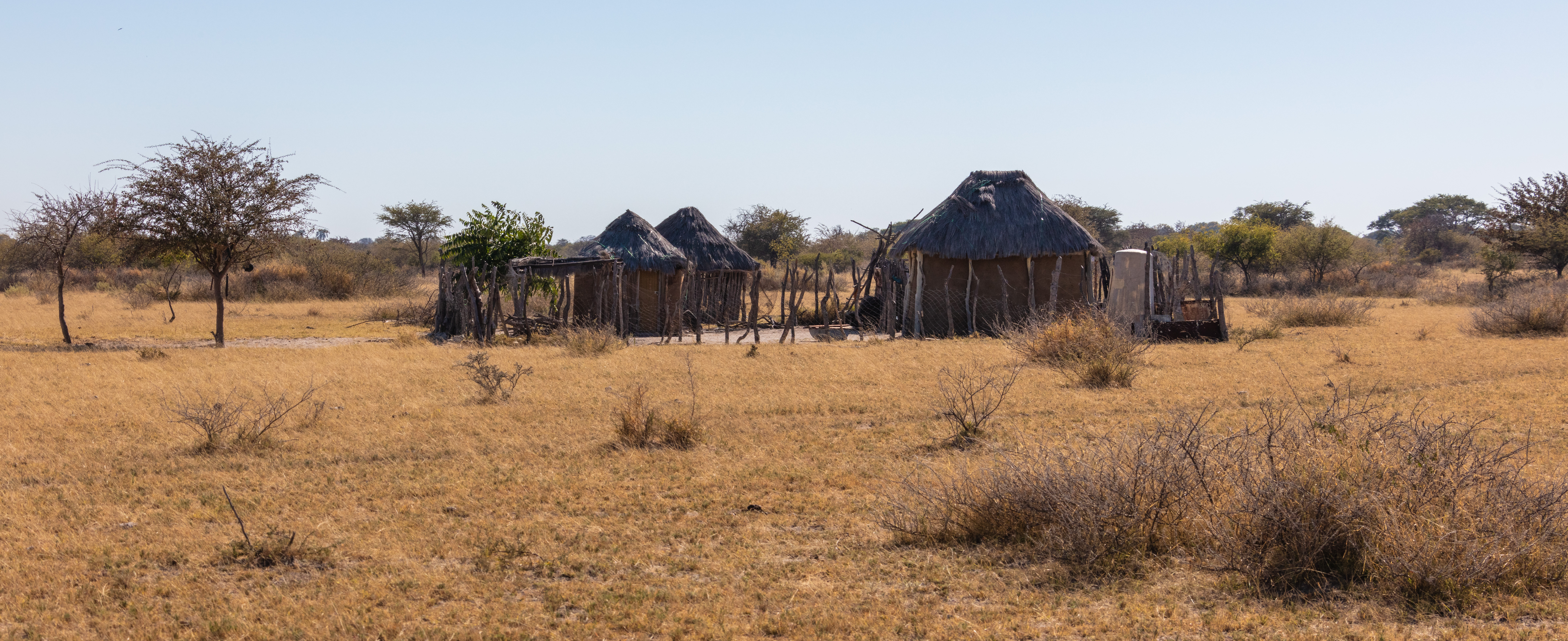 Shacks in Gweta, Botswana